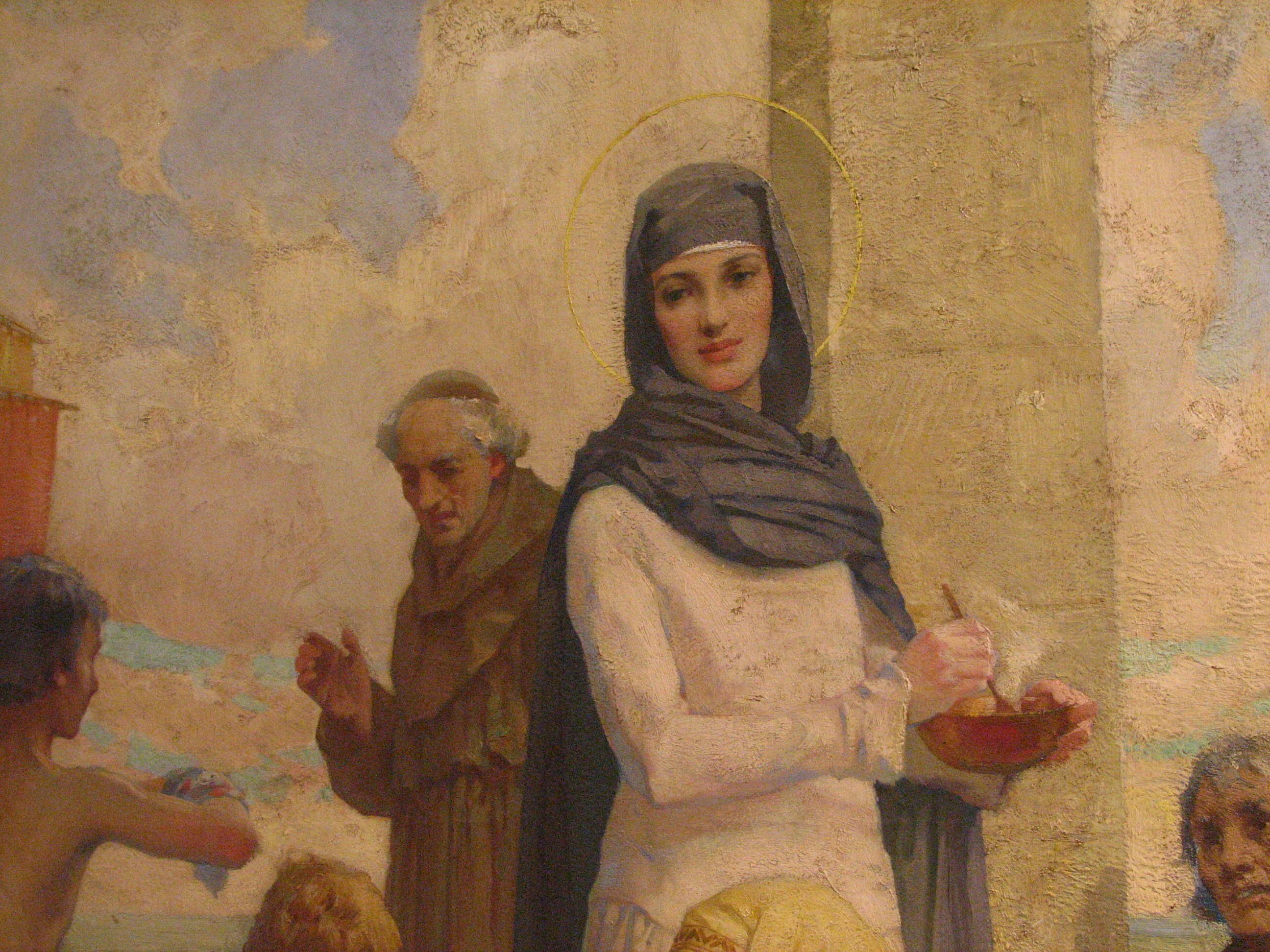 Detail from St. Hilda at Hartlepool by James Clark (artist) (oil painting)